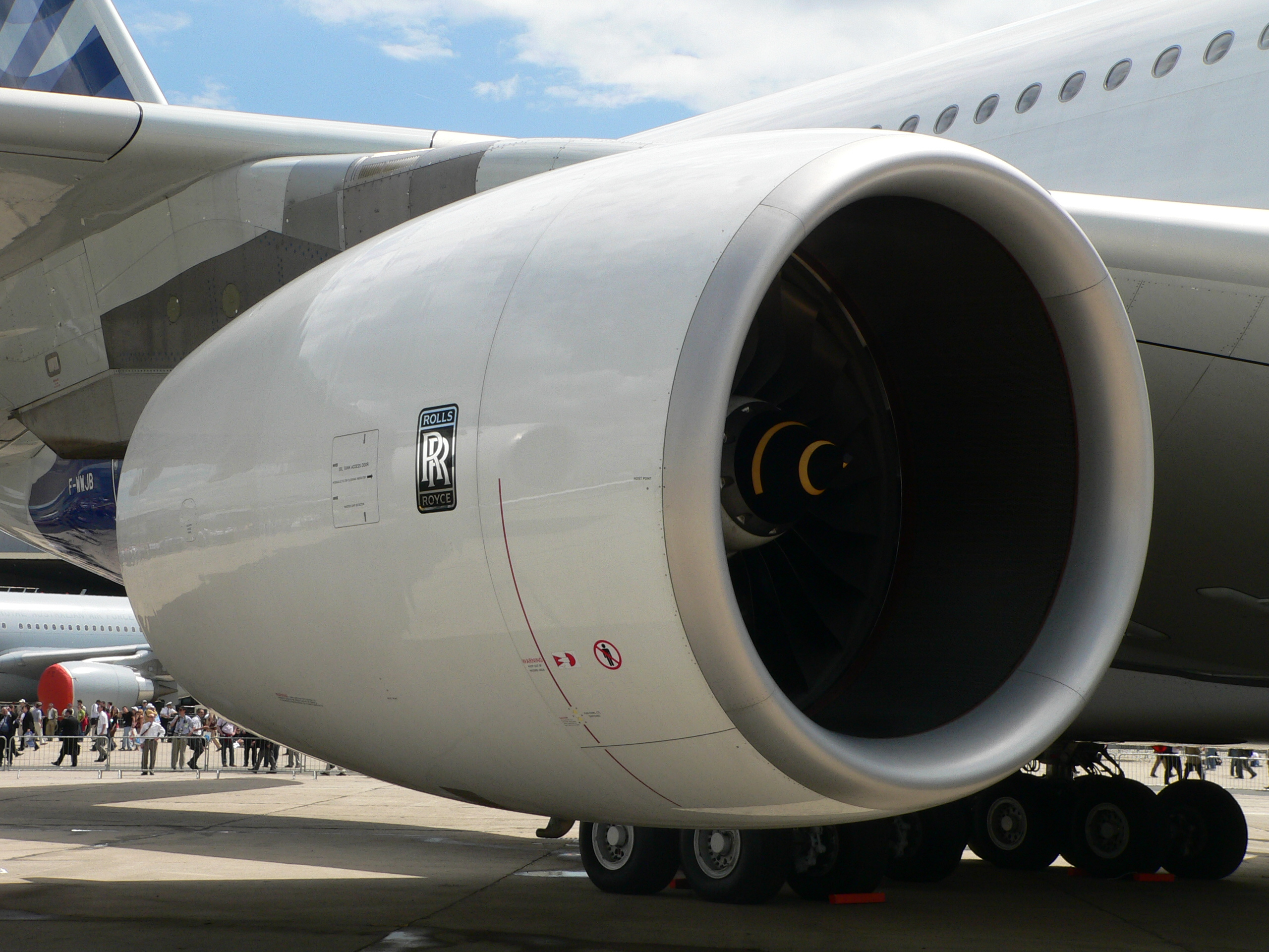 Airbus A380: Rolls-Royce Trent 900 engine.